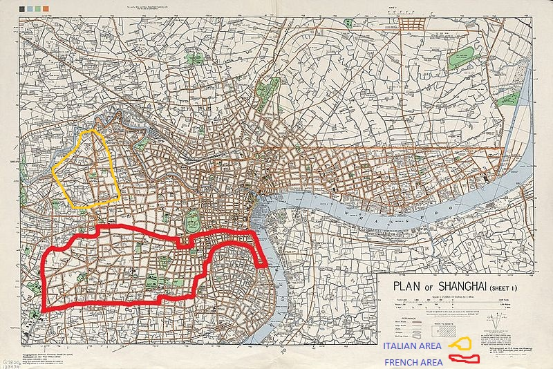 I have used a Commons map of the French settlement in Shanghai File:FormerFrenchConcessionMap.jpg and inserted the borders in yellow of the Italian concession. The original map showed the borders of the Shanghai International Settlement in orange color. I have added data with my software.